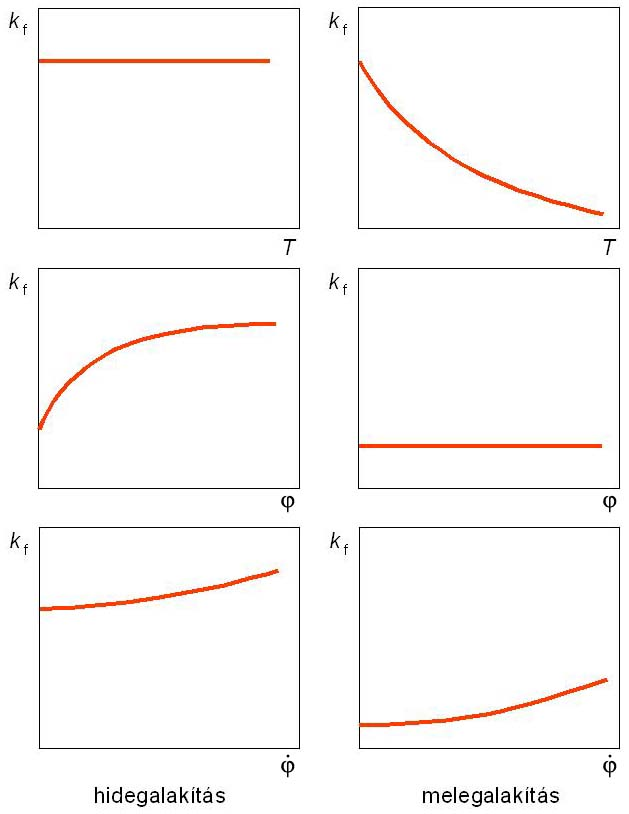 Parameters affecting the forming strength; cold forming - hot forming